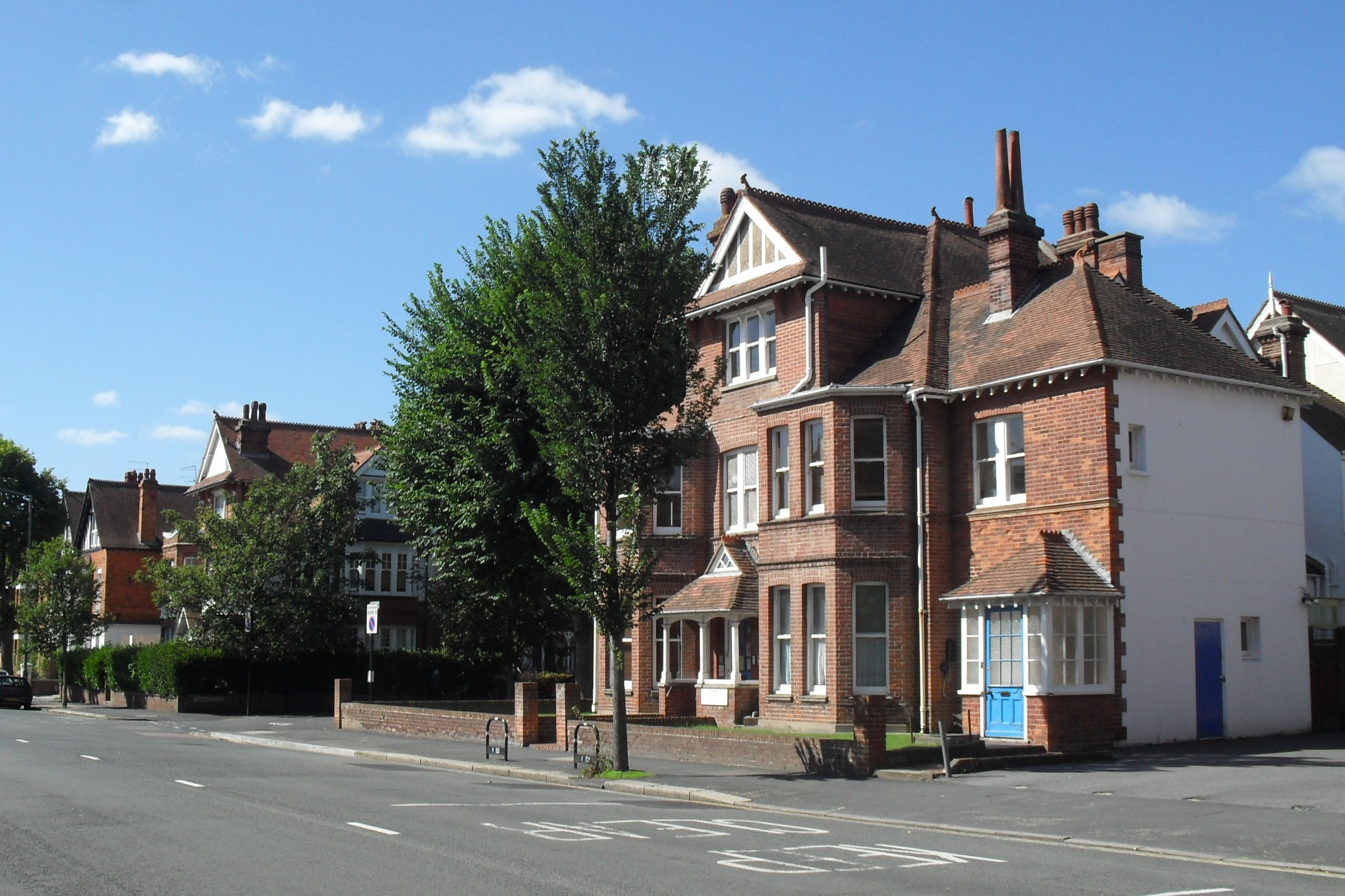 Houses on Sackville Road, Hove, City of Brighton and Hove, East Sussex, England. Late 19th-century villas within the "Pembroke & Princes" Conservation Area.